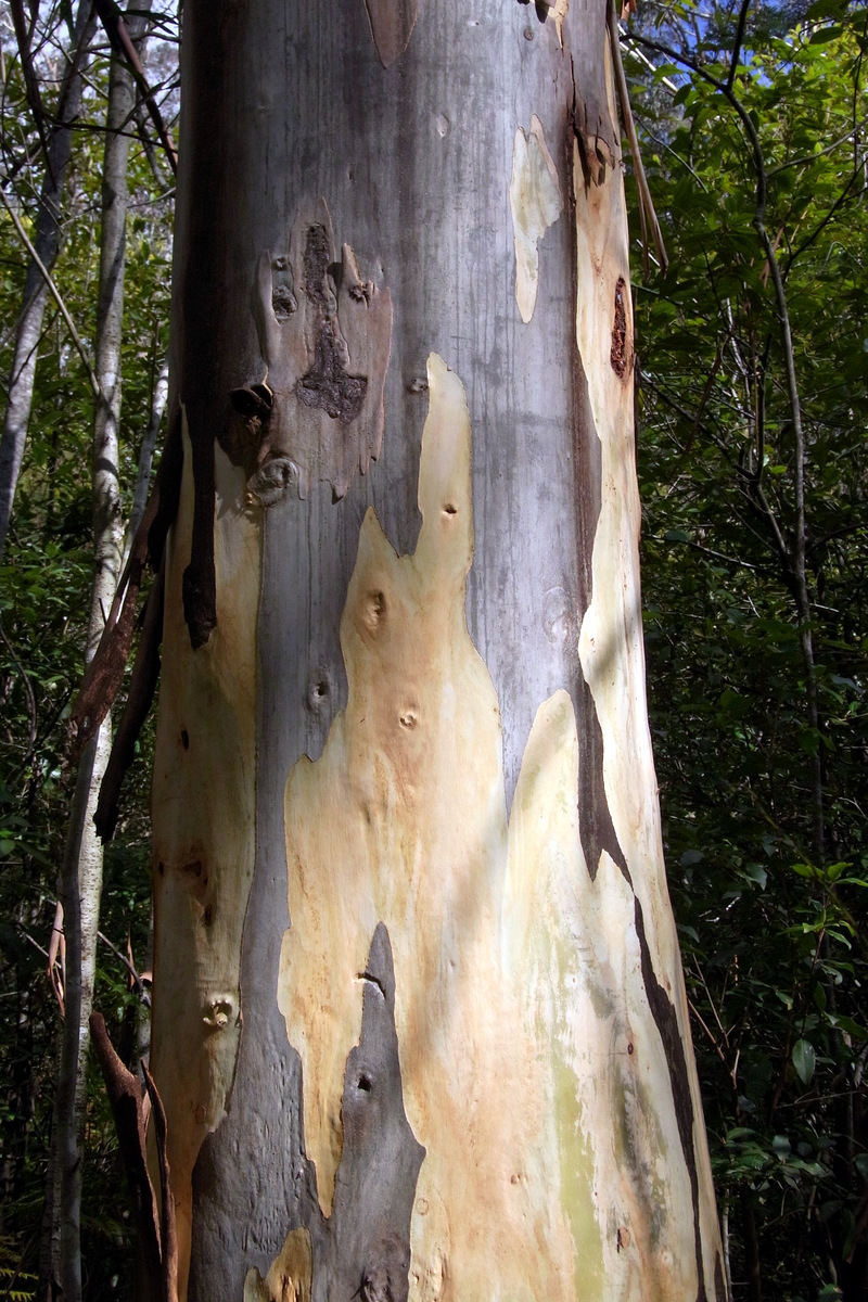 Eucalyptus deanei trunk — Blue Gum Swamp, Winmalee NSW Australia.